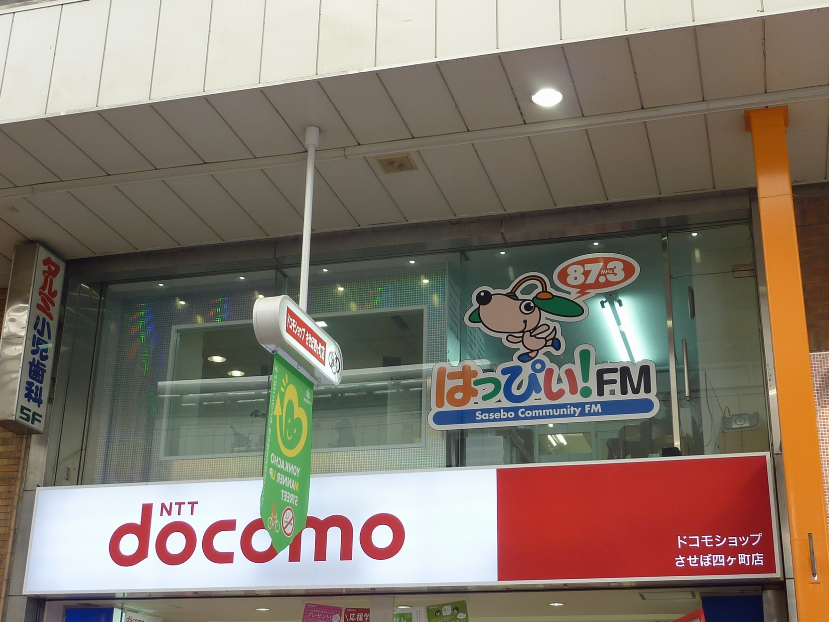 Sasebo Community FM (Nagasaki Prefecture, Japan).